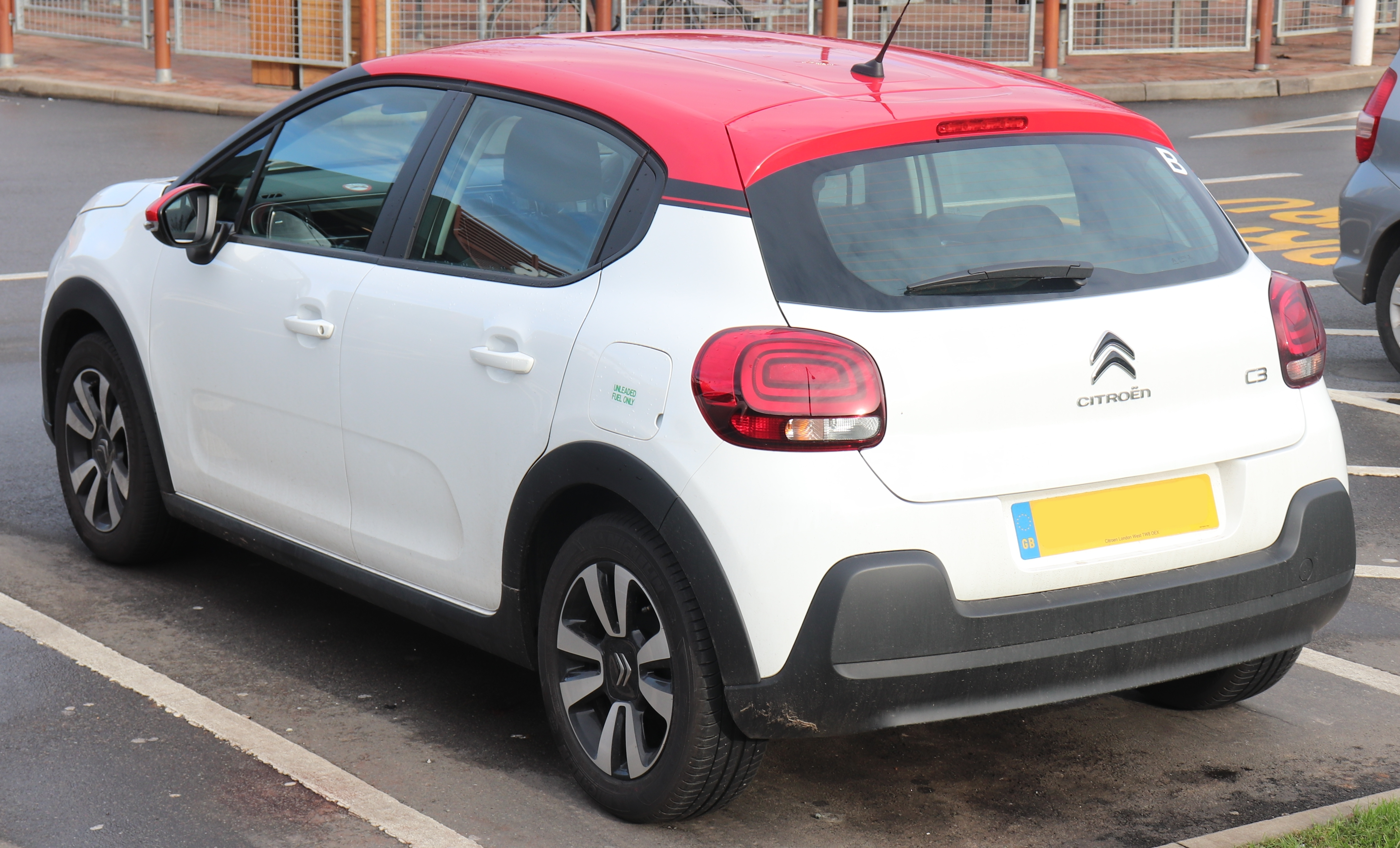 2017 Citroen C3 Feel Puretech 1.2 Taken in Leamington Spa